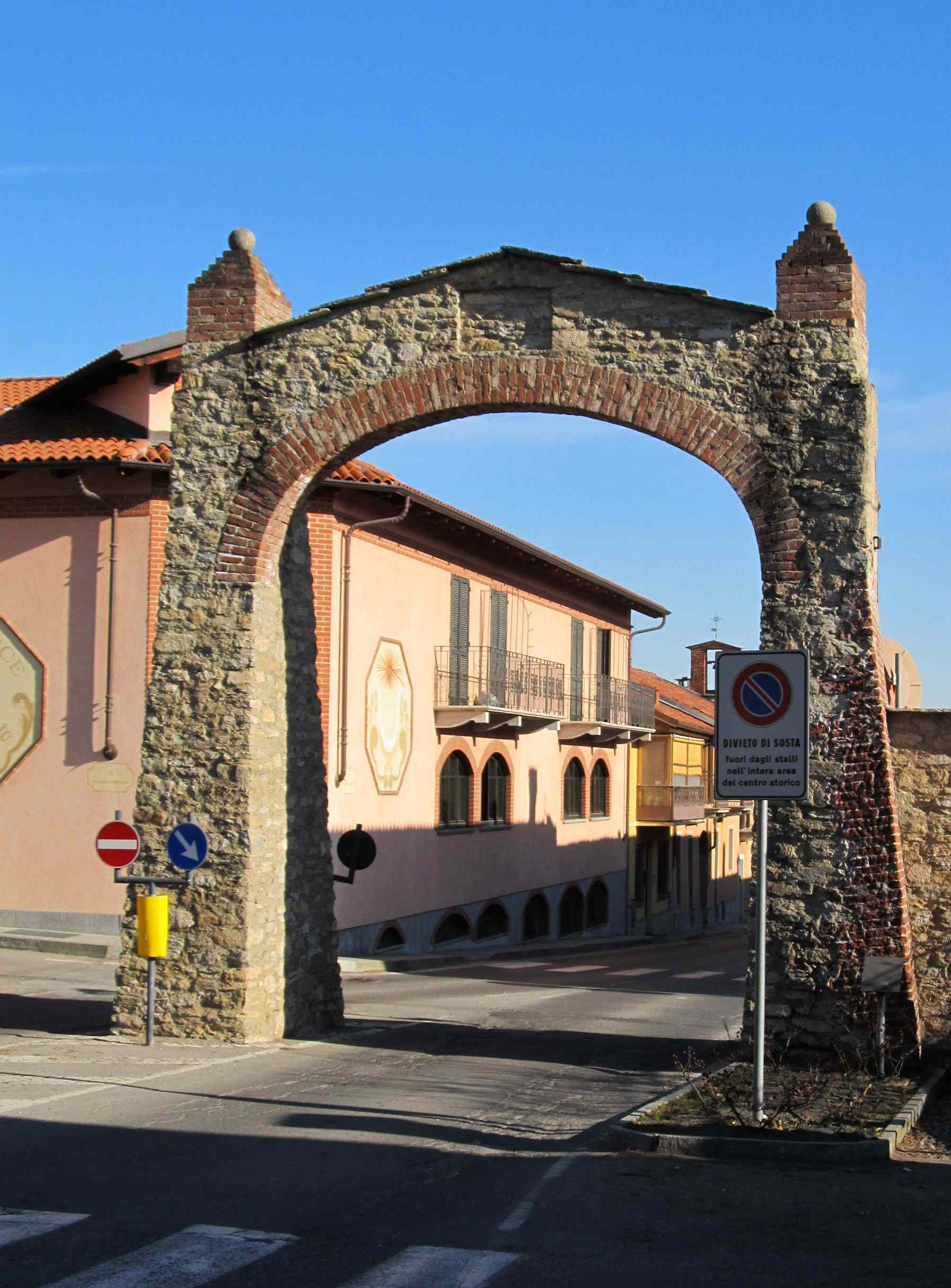 Frossasco (TO, Italy): town gate towards Cantalupa